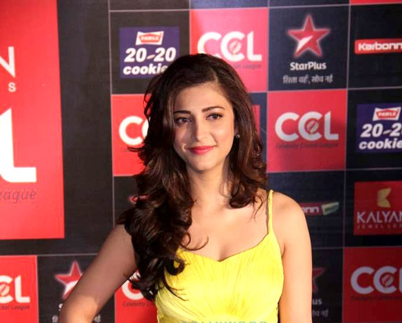 Shruti Haasan at Red carpet of Celebrity Cricket League - Season 3